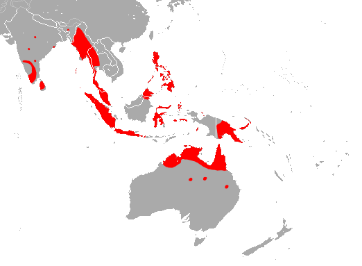 Dusky Roundleaf Bat (Hipposideros ater) range